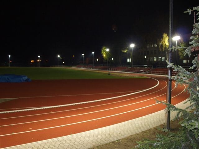 gsadf